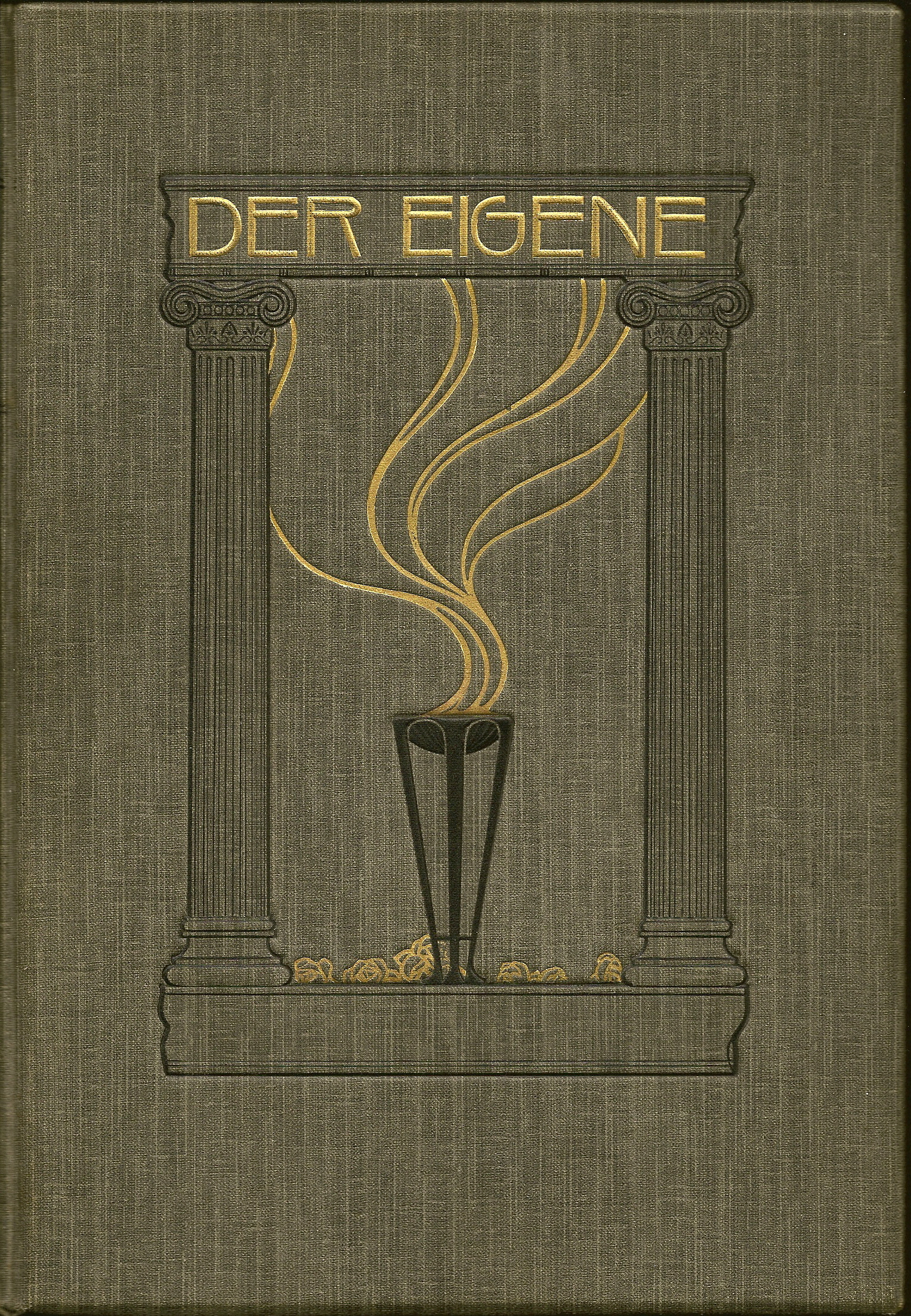 Cover of the 1906 volume of Der Eigene